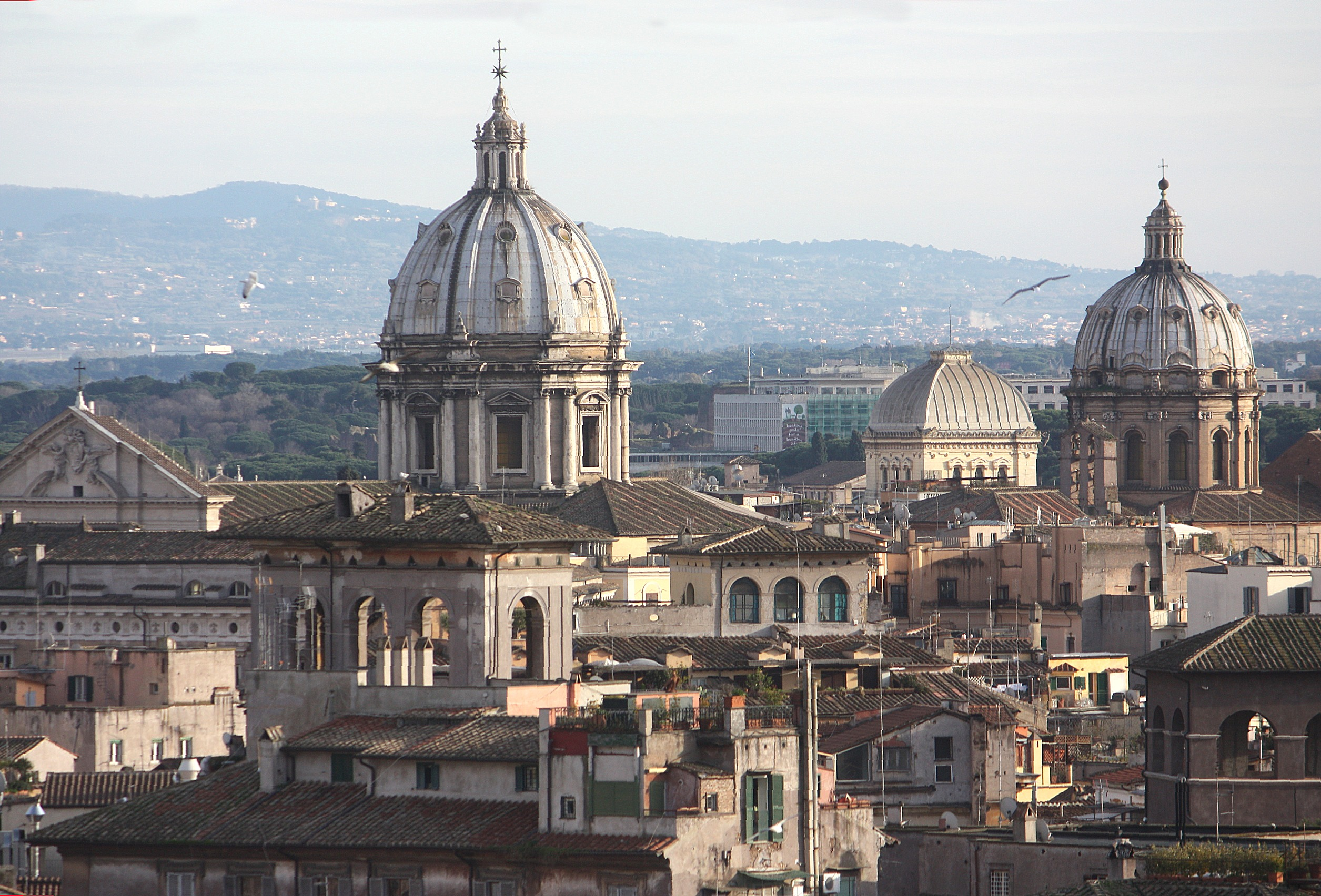 Rome, view from the Castel Sant'Angelo to the church Sant'Andrea della Valle and the church Trinità dei Pellegrini